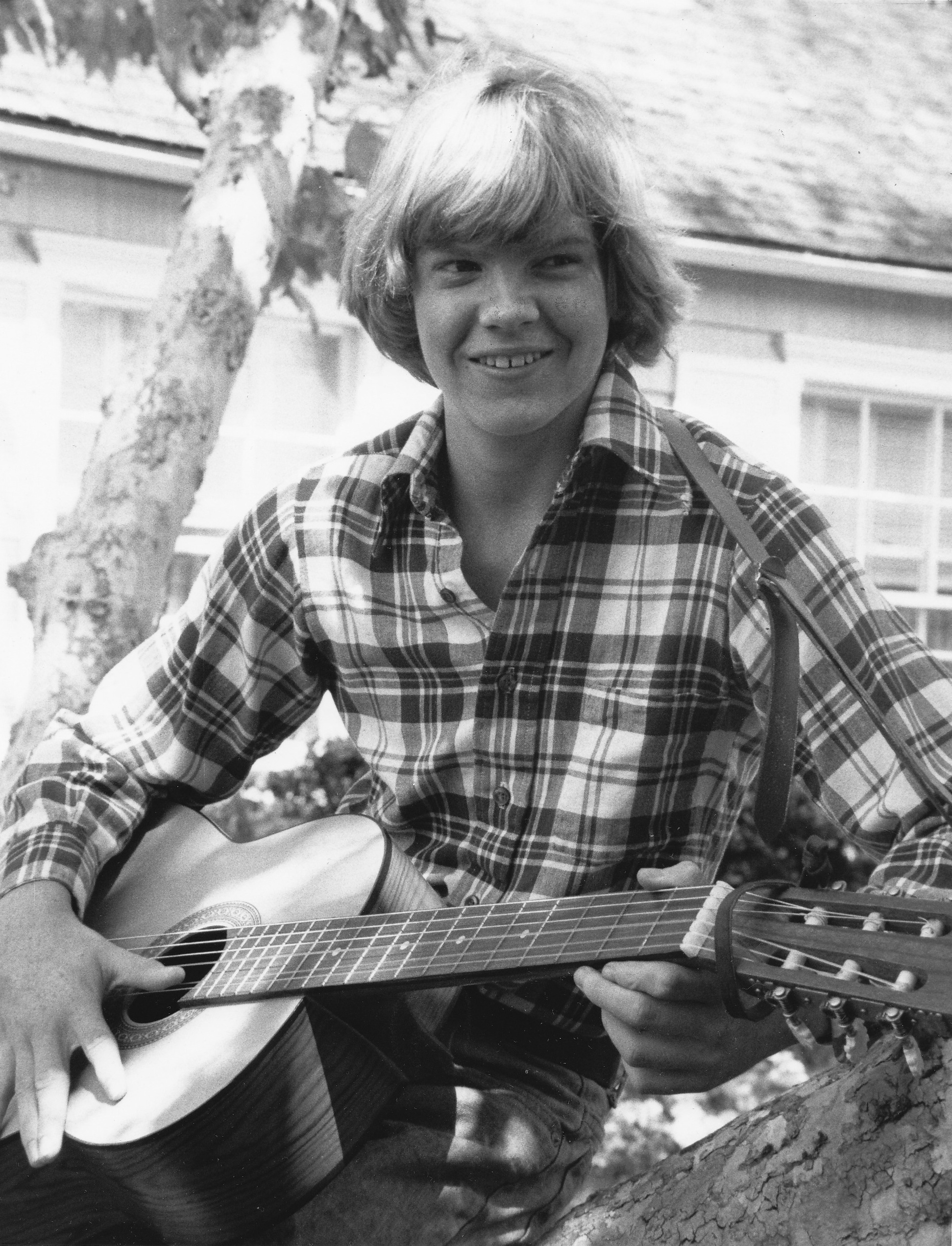 Publicity photo of teen actor, Johnny Doran promoting his role as "Mark Mulligan" on the NBC television series Mulligan's Stew. (Note: A 90-minute television movie "pilot" for the series first aired on June 20, 1977, in which the role of "Mark" was originally portrayed by Johnny Whitaker.)